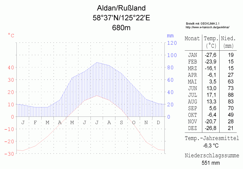 climate chart in the format by Walther and Lieth, metric, °Celsisus and millimeters, made with Geoklima 2.1